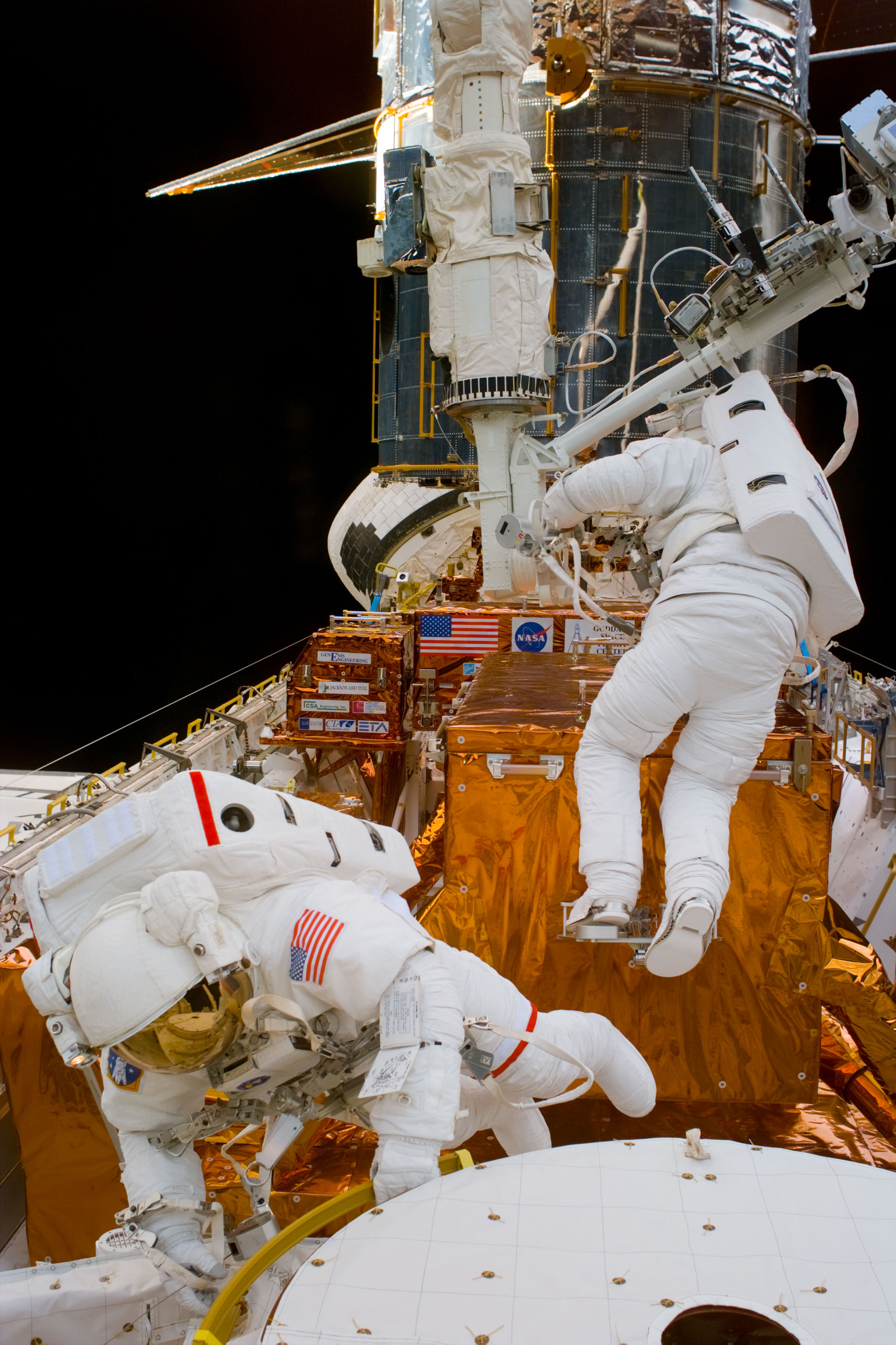 Mark C. Lee, payload commander (in foreground) and Steven L. Smith during EVA setup.